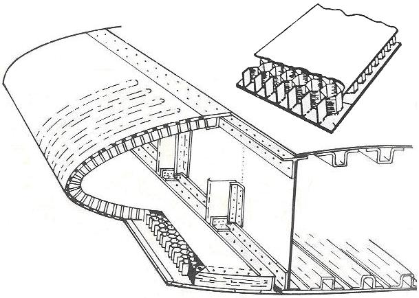 Aircraft wing sandwich construction scheme.